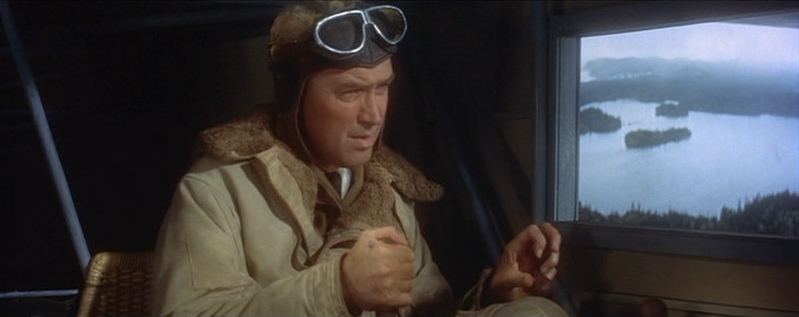 Cropped screenshot of the film The Spirit of St. Louis (1957).